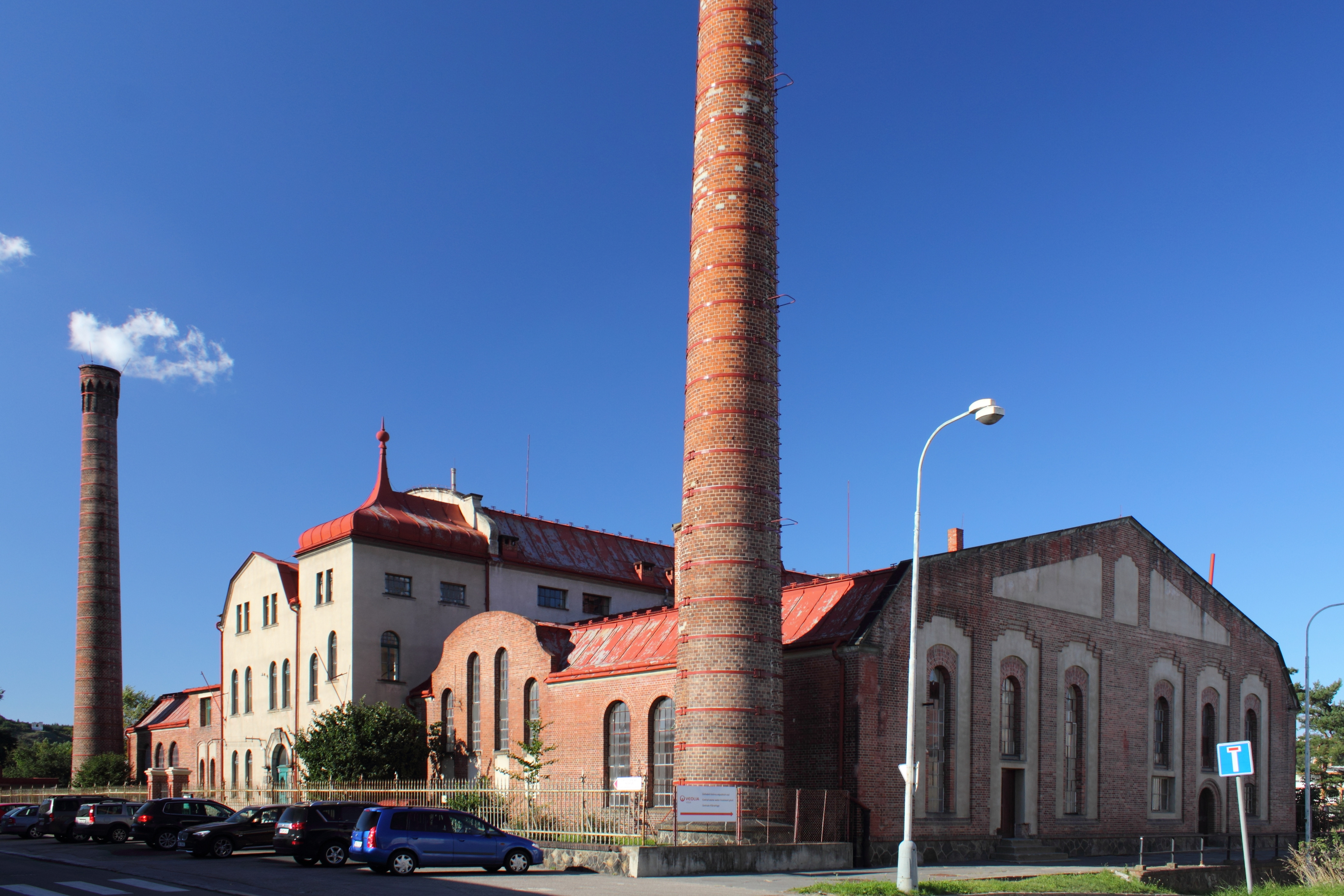 Old wastewater treatment plant (Ecotechnical Museum) - national cultural monument, Bubeneč, Prague.